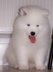 A Samoyed Male 8 Weeks Old